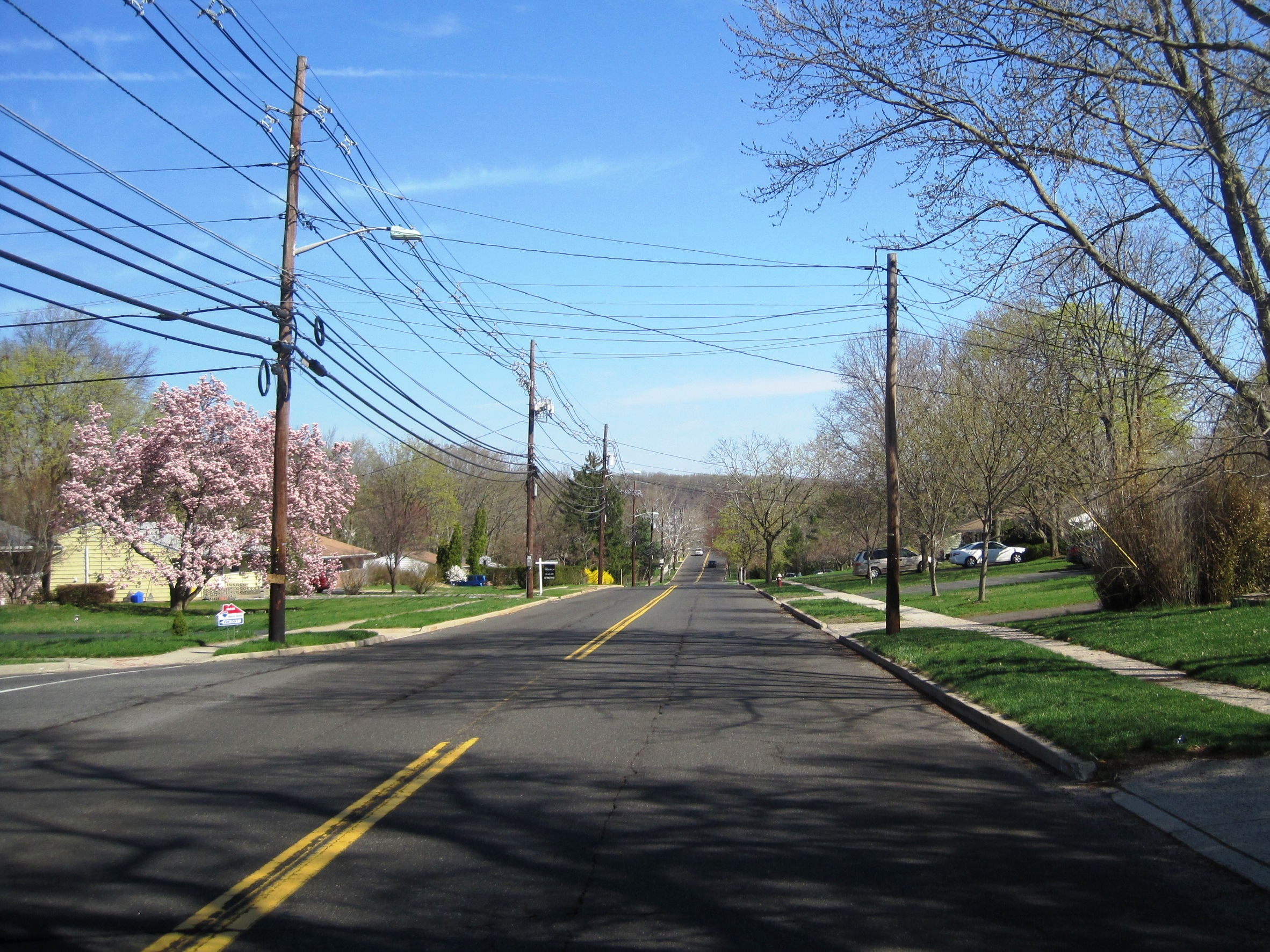 Photo of the census designated place of Kendall Park, New Jersey, a community within South Brunswick. Photo taken along westbound New Road.